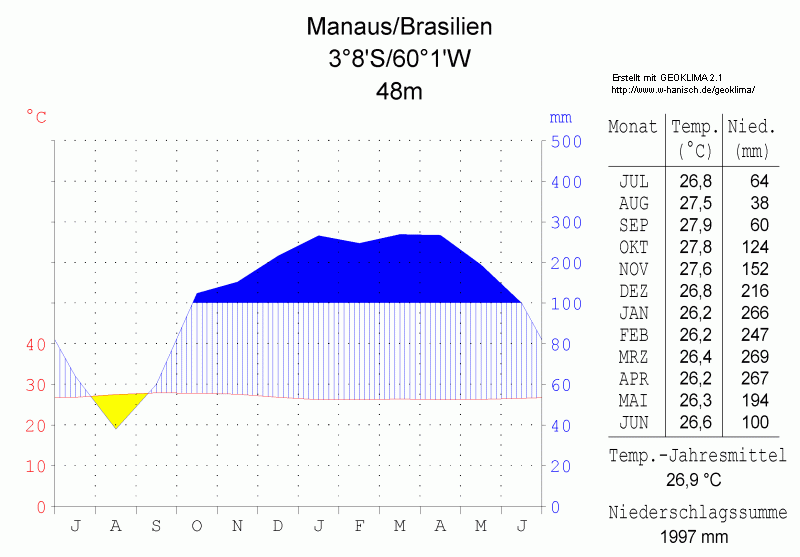 climate chart in the format by Walther and Lieth, metric, °Celsisus and millimeters, made with Geoklima 2.1